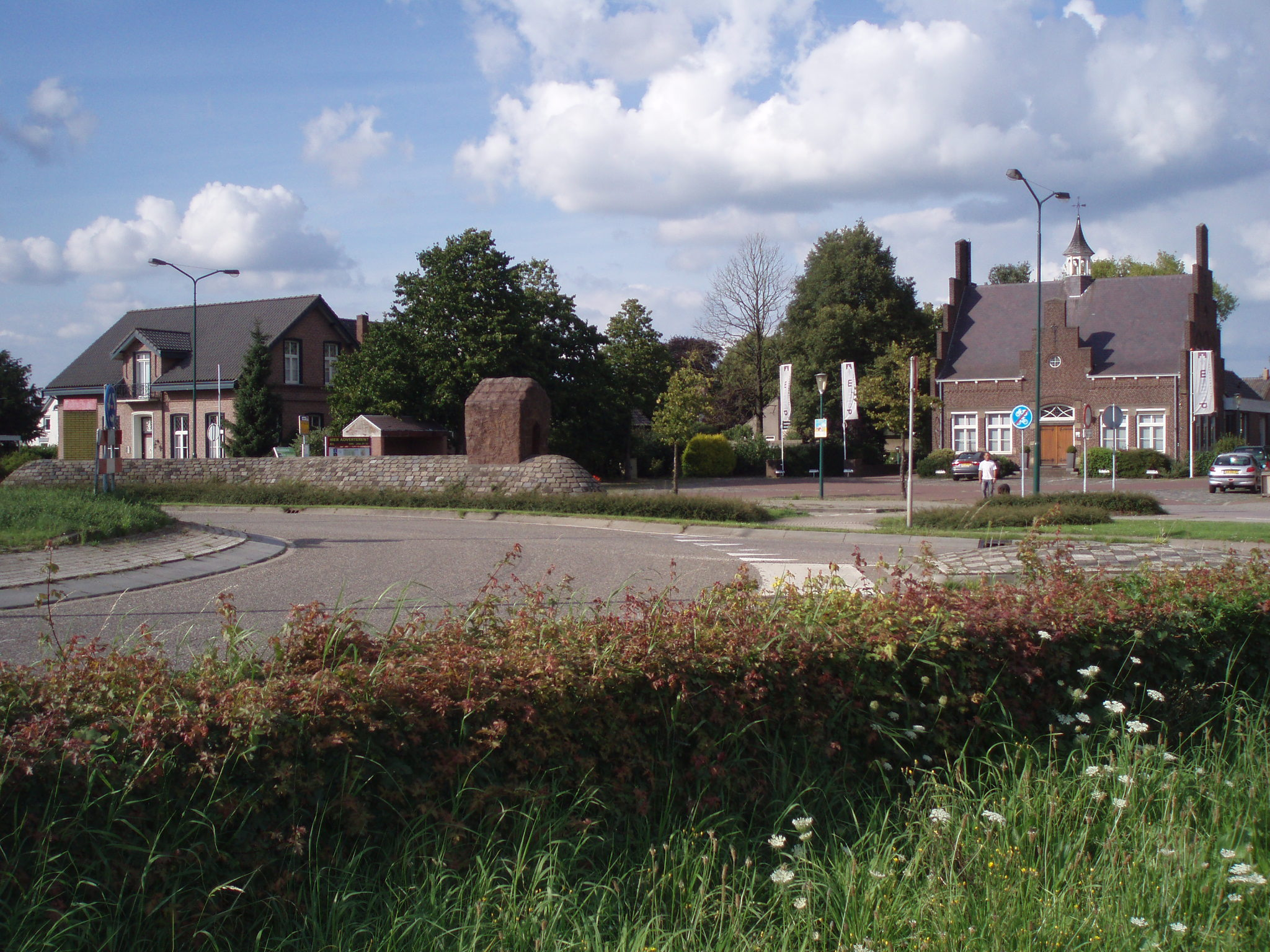 Roundabout in Oeffelt, Netherlands, former city hall and monument of the former municipality Oeffelt becoming part of Boxmeer